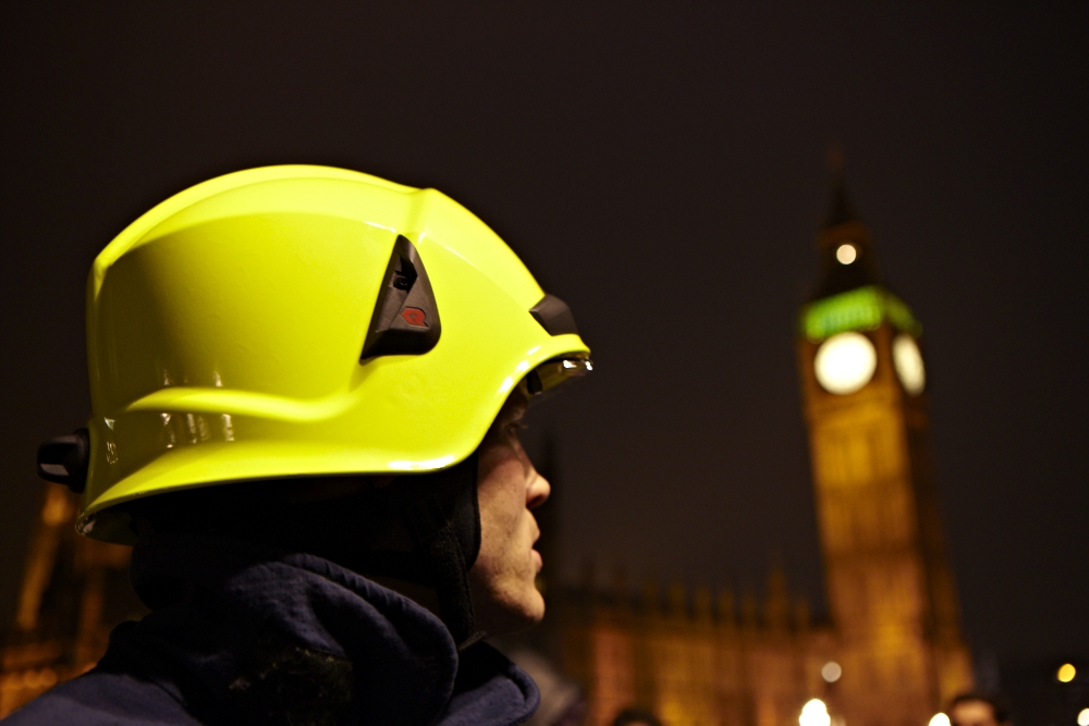 Fire engine